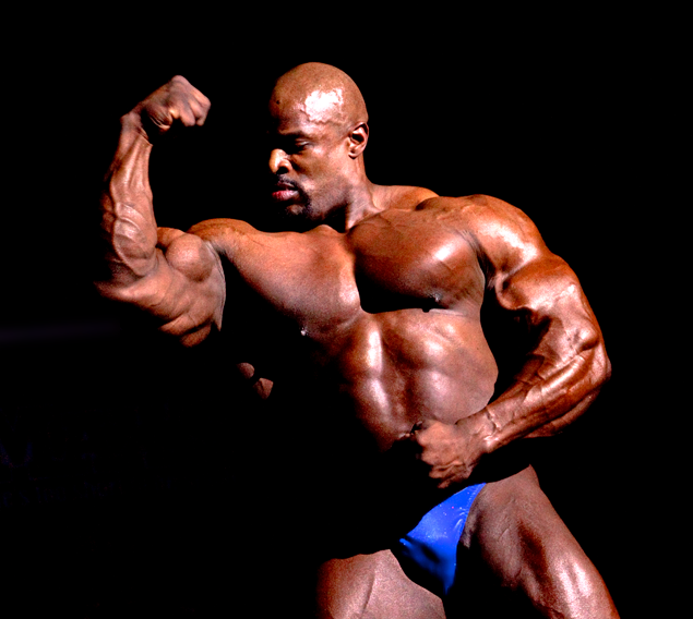 Ronnie Coleman 8 x Mr Olympia 2009 Melbourne, VIC, Australia